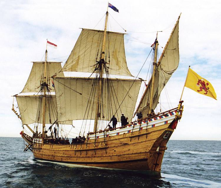 This is a photo of the relica of the Duyfkenunder sail, taken around 2006. The original Duyfken was commanded by Willem Janszoon as was the first European ship to have contact with Australia, in 1606, when they charted 300 kilometres of west Cape York.